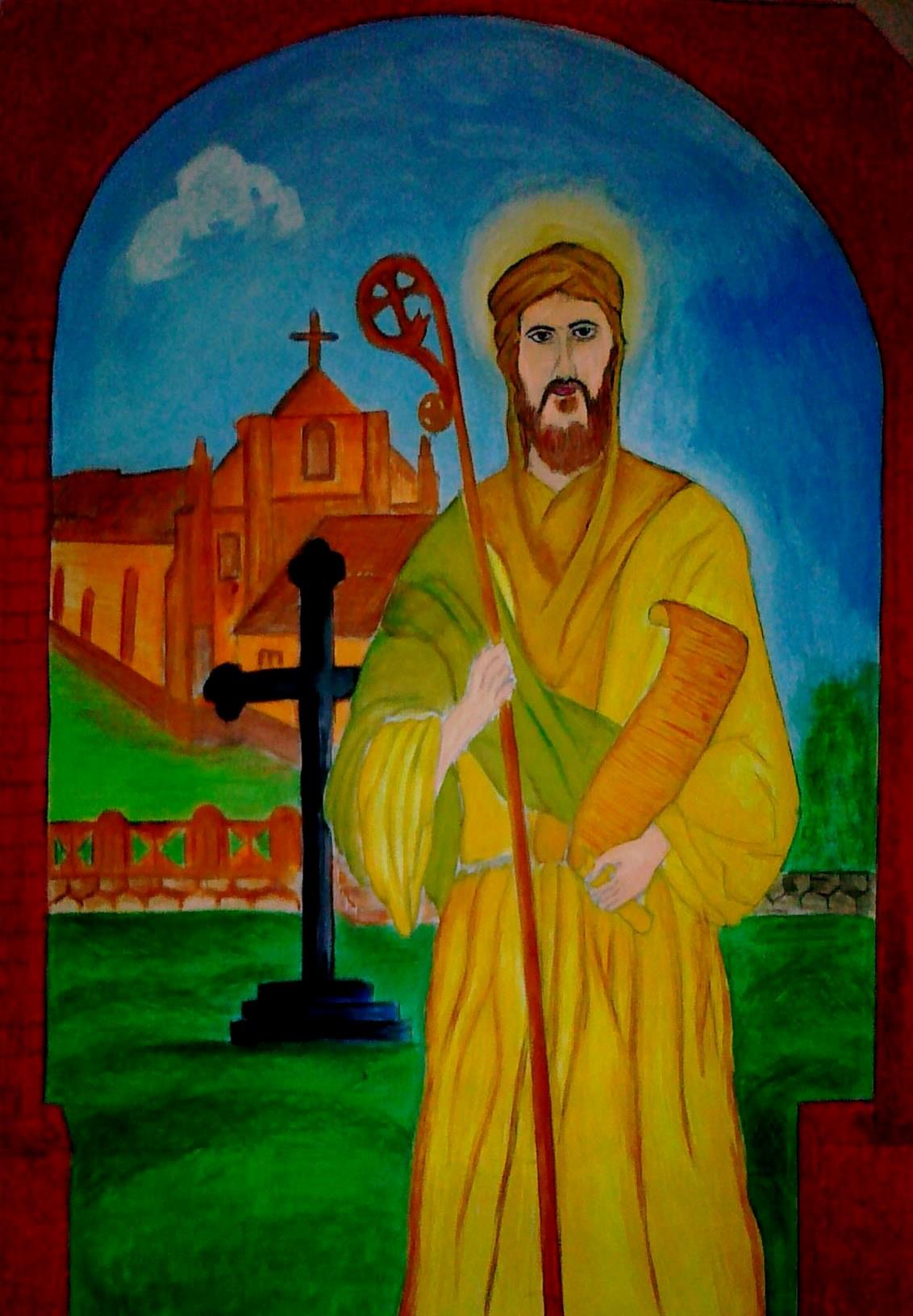 paining by the author-Mar abraham last Chaldean bishop of malabarBVT99 (talk) 21:18, 7 January 2012 (UTC)BVT